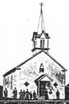 1895 The Cathedral Church of St. Louis of France was erected and blessed in Green Bay, Wisconsin by Bishop Vilatte.